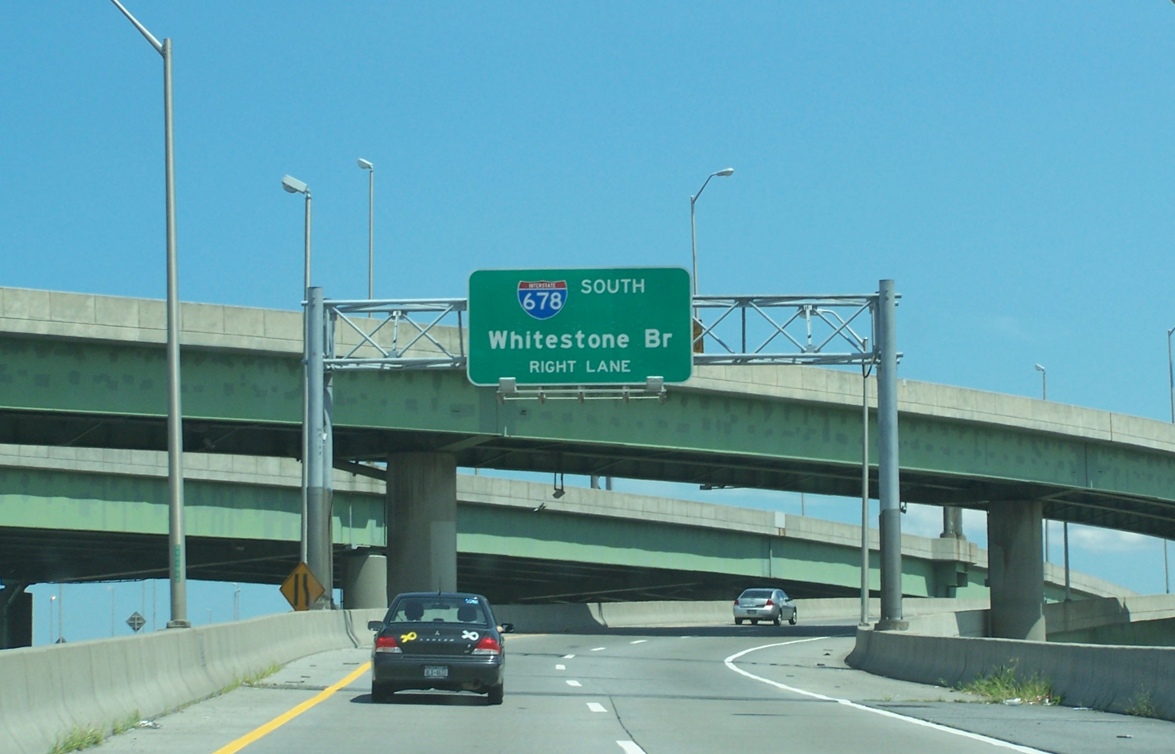 Sign for I-678 south on the exit ramp from I-278 east.